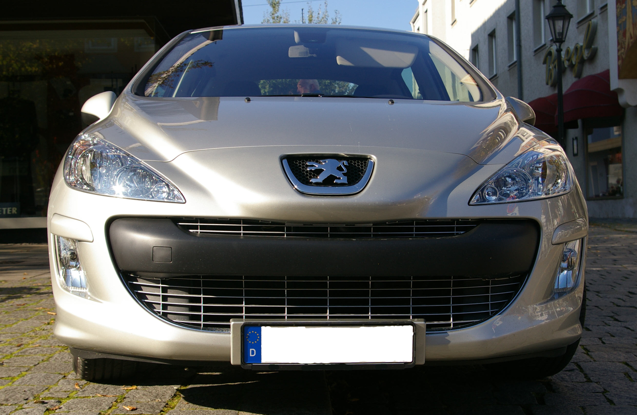 Peugeot 308 front